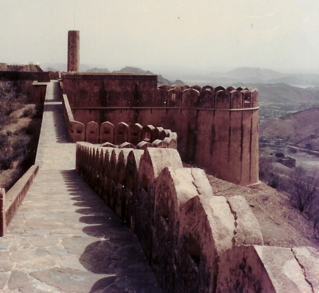 Own pic